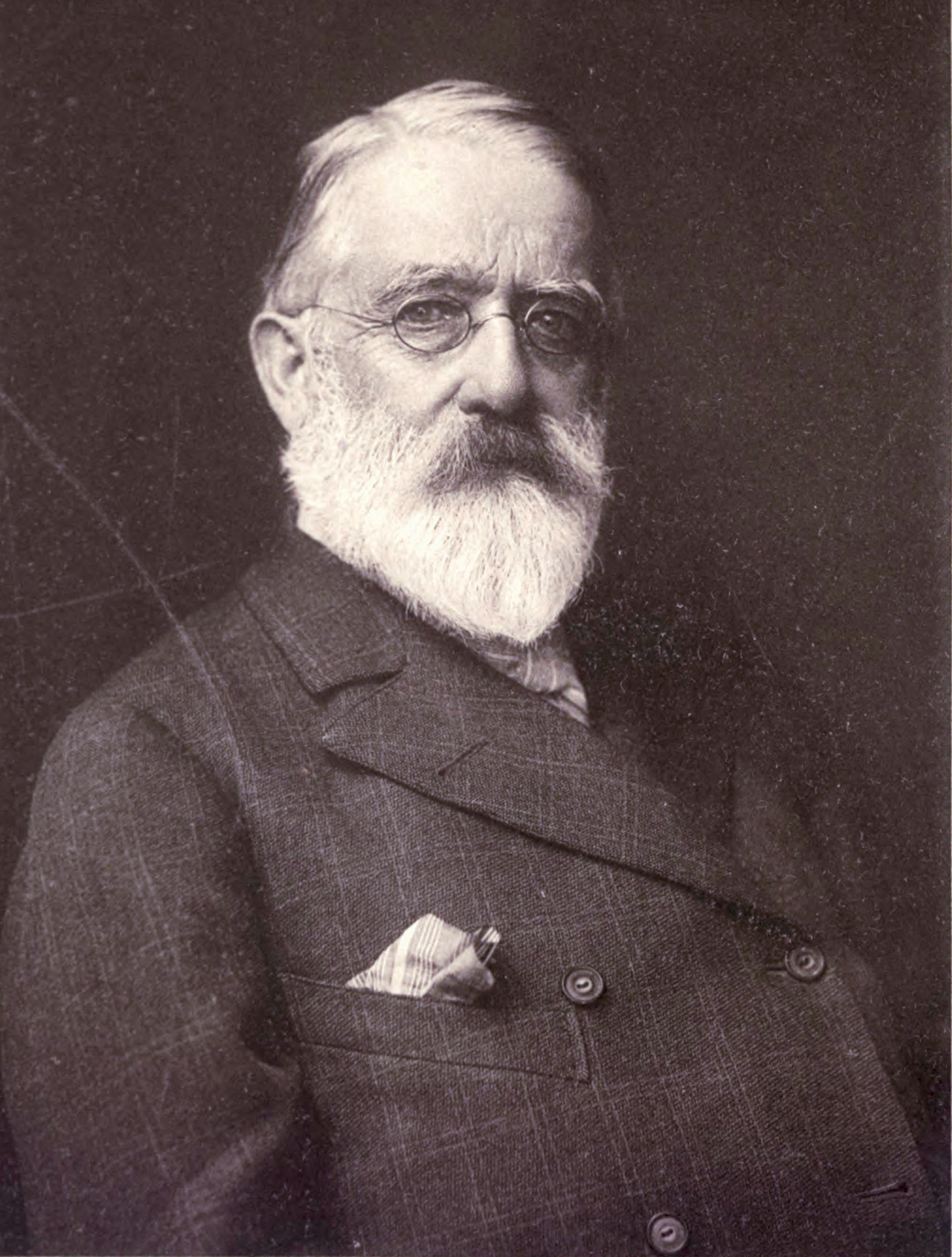 Portrait in Chess in Iceland.